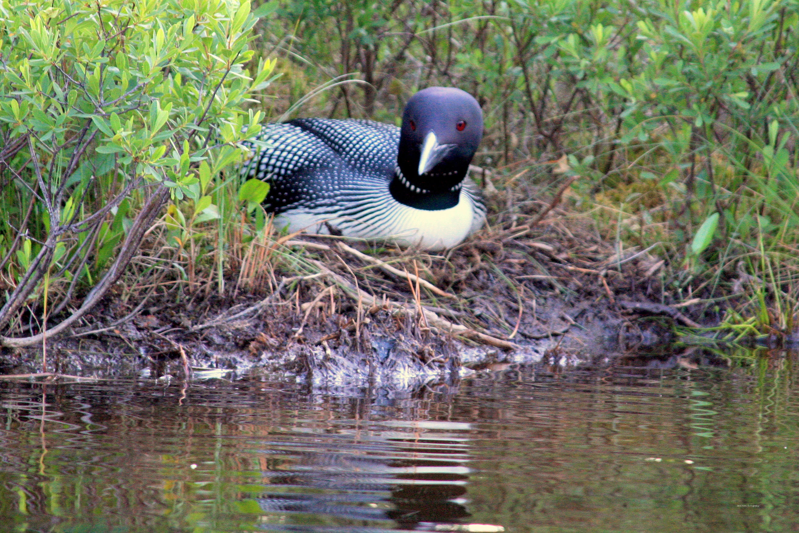 A Great Northern Loon (also known as Great Northern Diver and Common Loon) on a nest by water in Maine, USA.